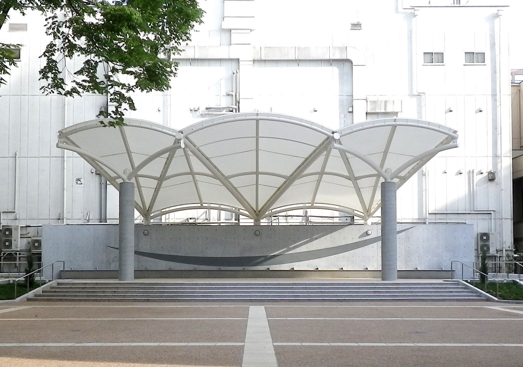 Motokaji-chō Kōen Park viewed from Motokaji-chō Street in Kokubun-chō, Sendai, Japan